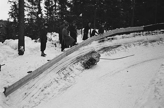 FIL European Luge Championships 1937 in Korketrekkeren, Oslo, Norway